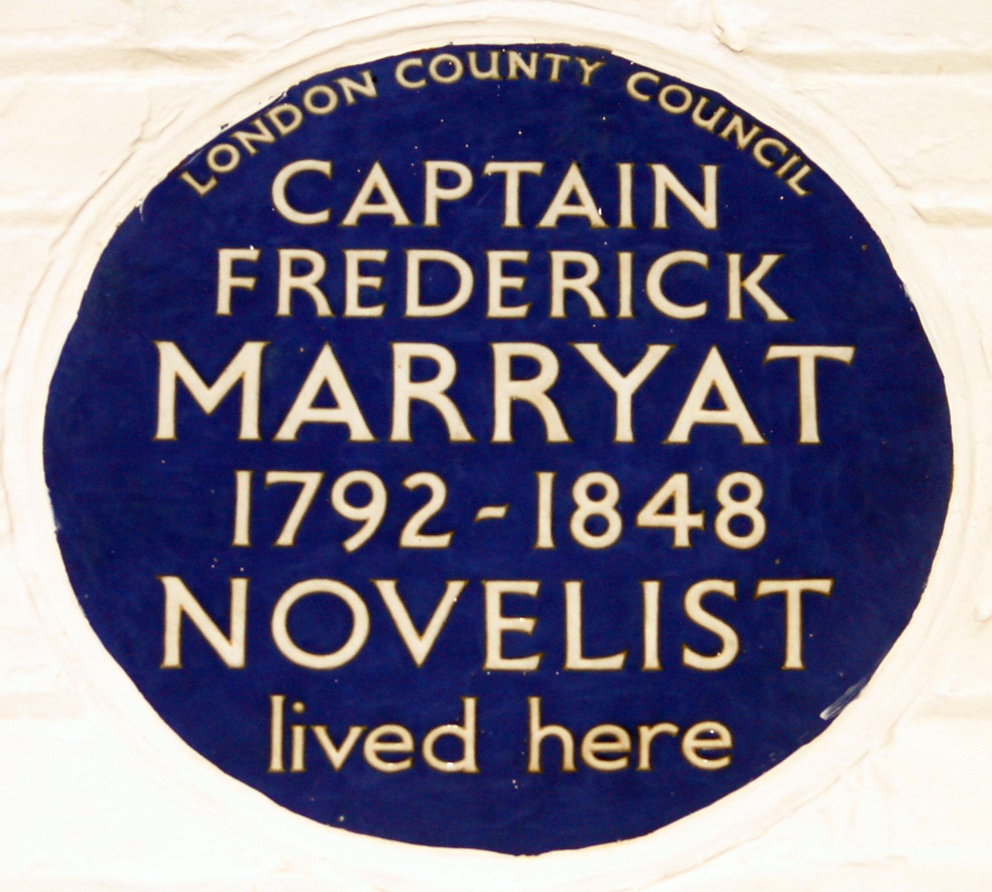 Captain Frederick Marryat